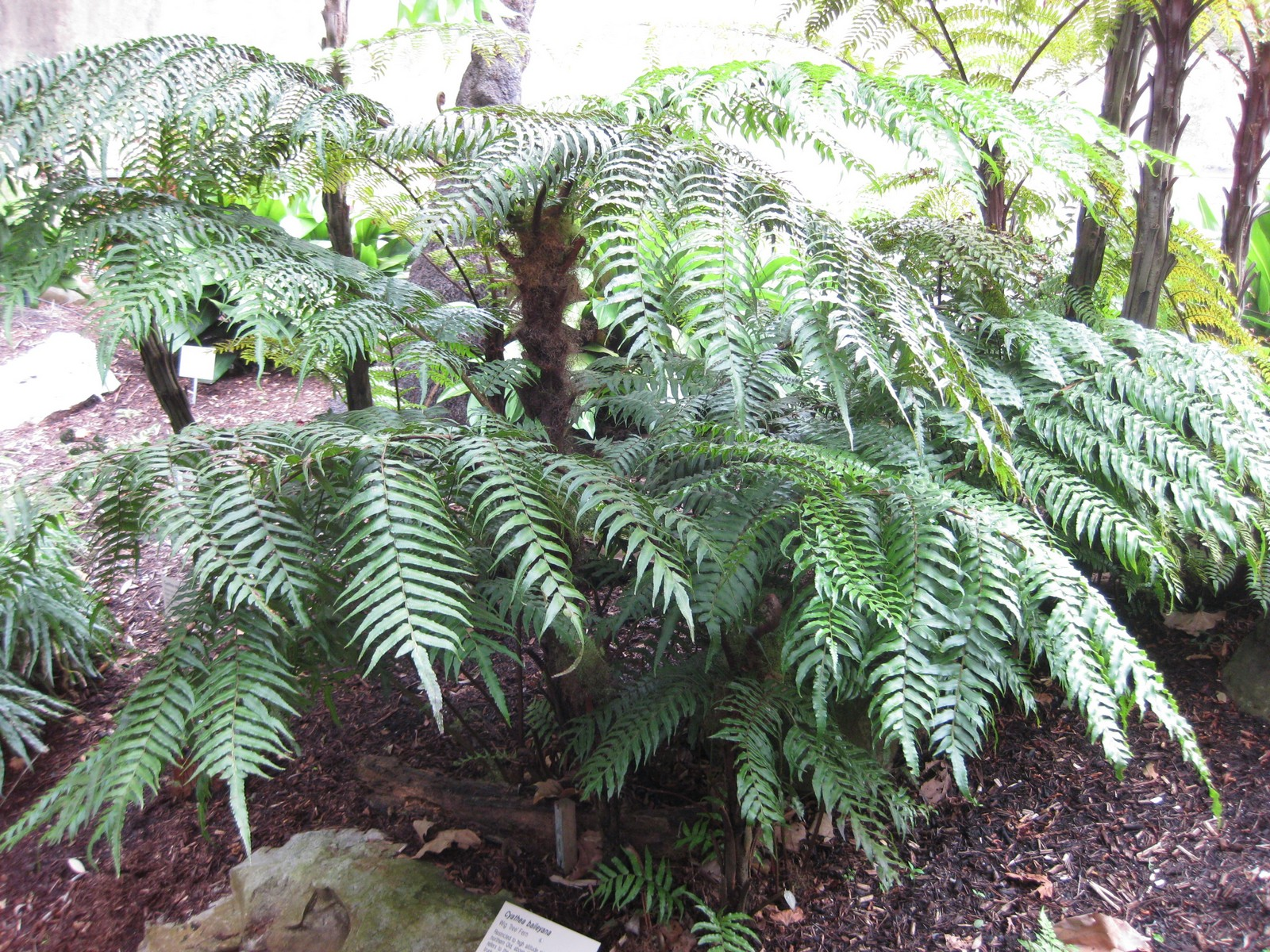 Photographed at the Royal Botanic Gardens Sydney (Australia) in January